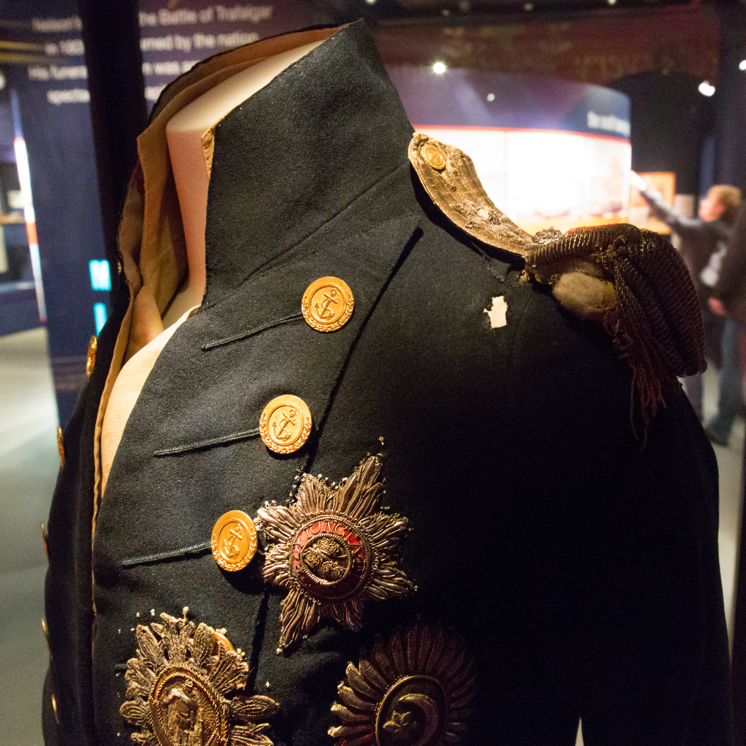 Horatio Nelson's cloth at the Battle of Trafalgar.